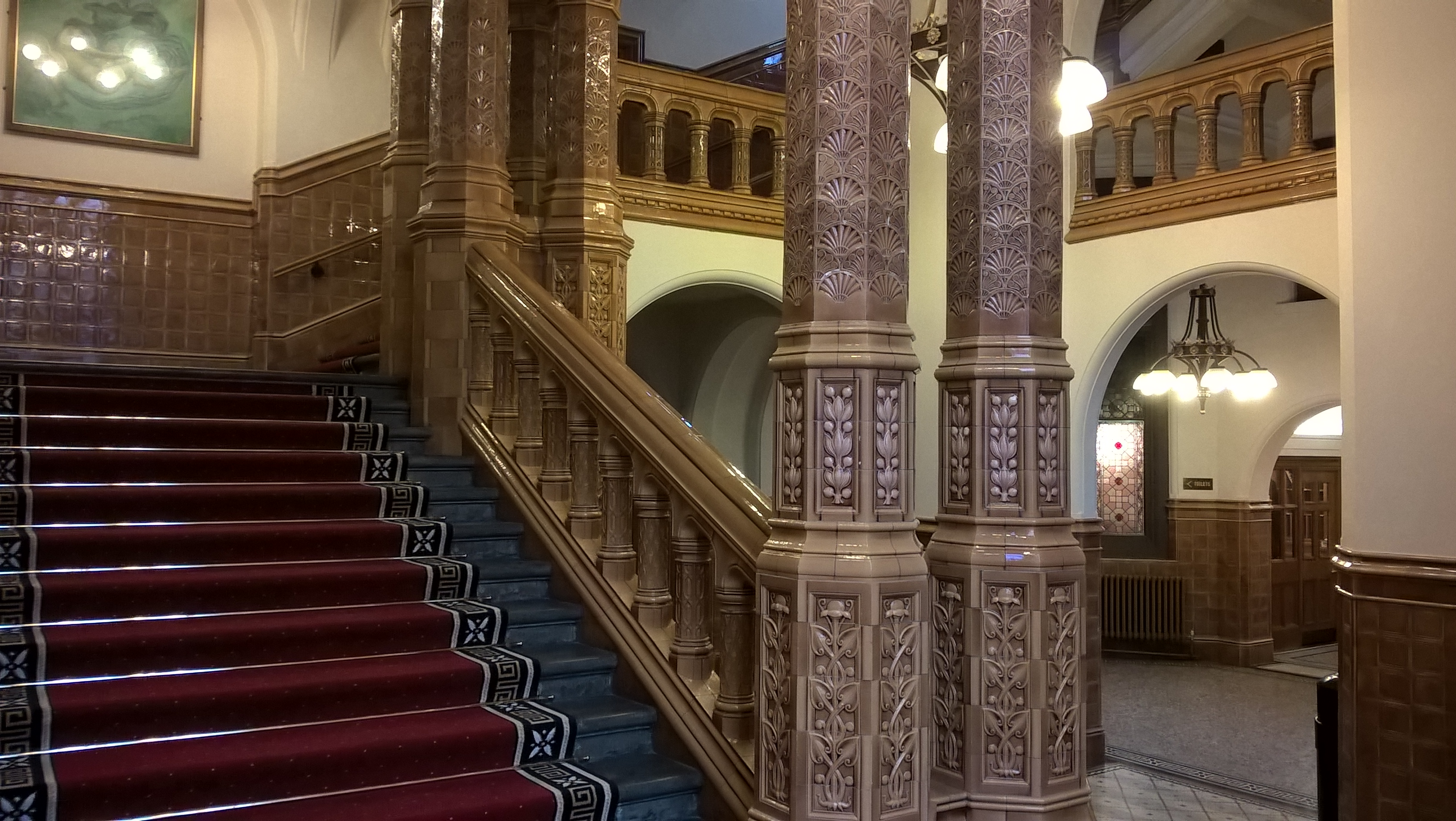 The staircase of the Great Hall building, University of Leeds, showing salt-glazed decorative mouldings known as Burmantofts Faience.